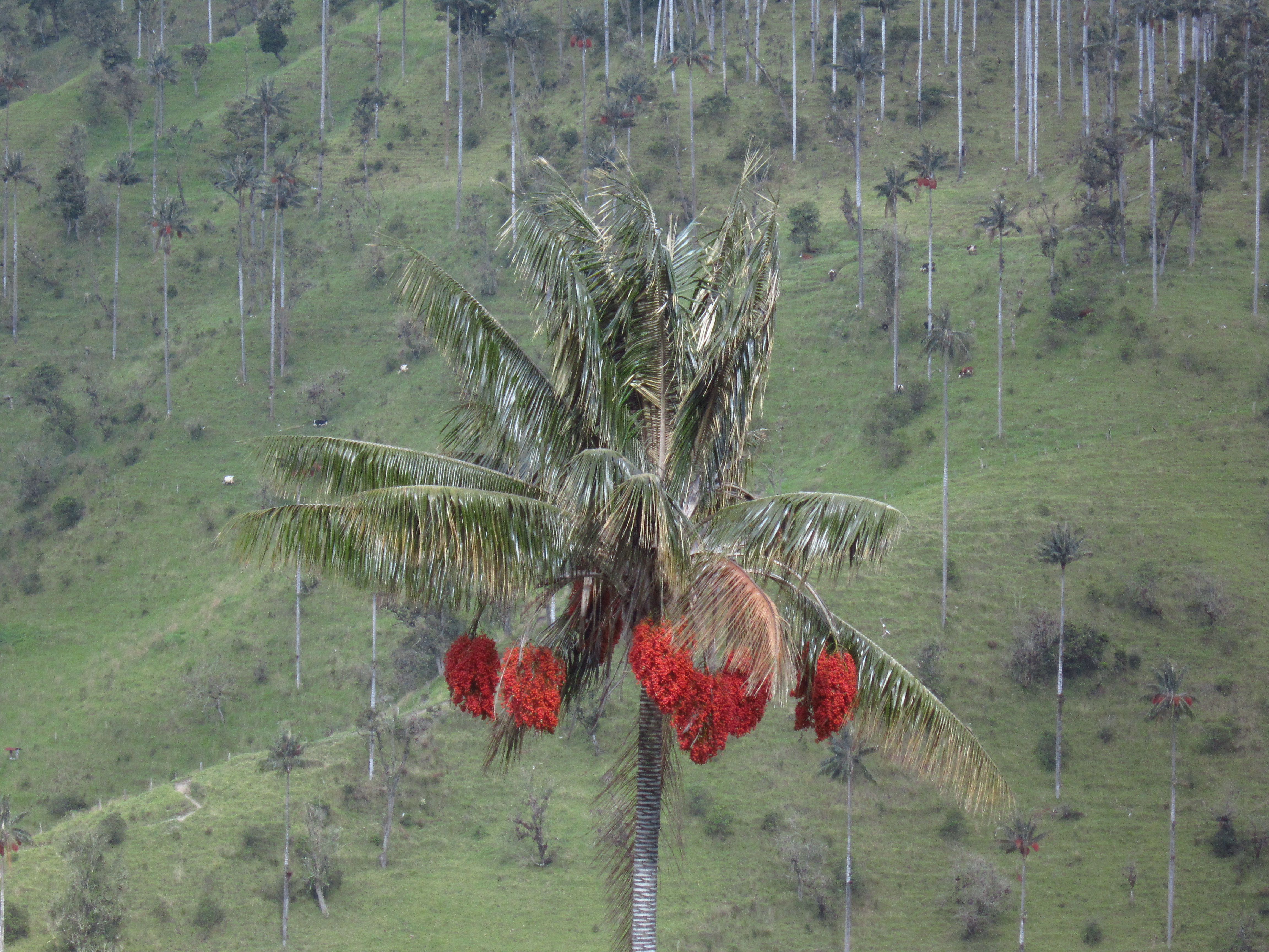 La Carbonera, Tolima. Corozos maduros Palma de cera de Colombia